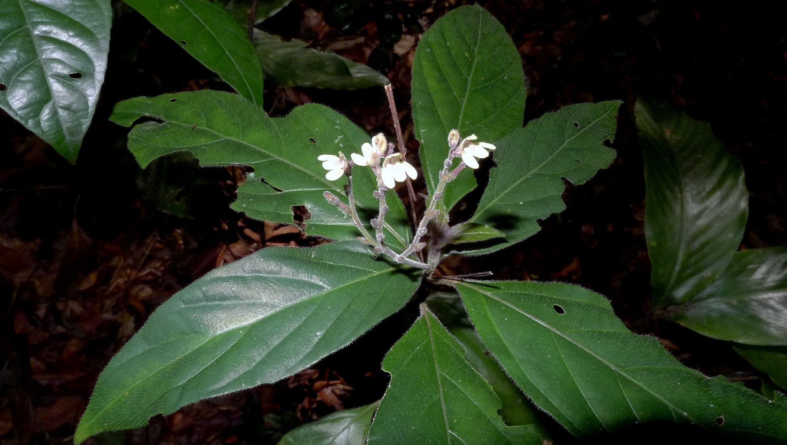 Justicia antirrhina Nees & Mart.